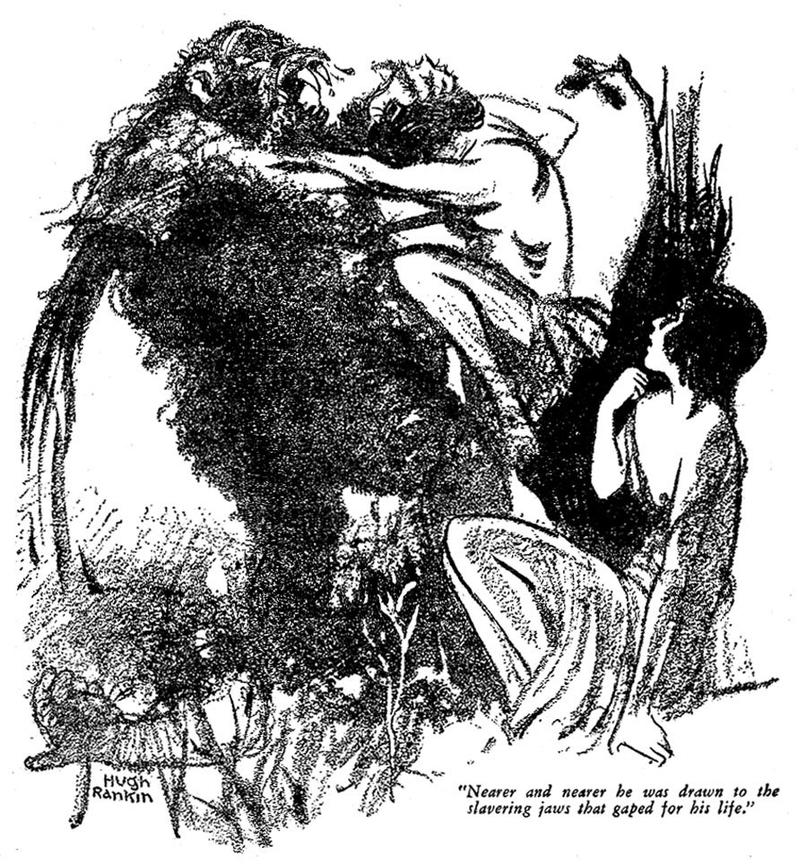 Illustration for Robert E. Howard's "Shadows in the Moonlight" on p. 467 of Weird Tales, April 1934, vol. 23, no. 4.